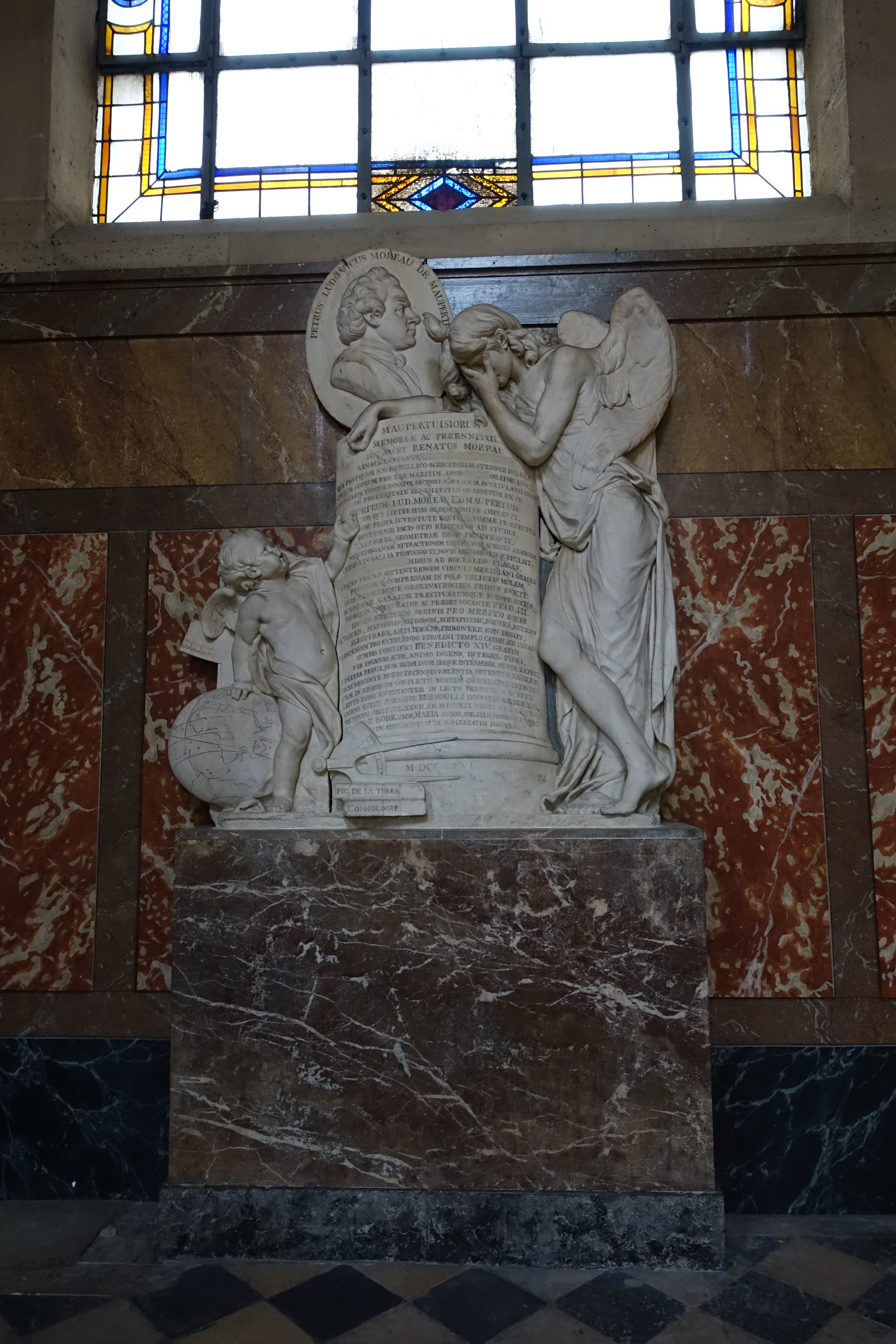 Église Saint-Roch, 296 Rue Saint Honoré, 75001 Paris, France. : Tombeau de Pierre Louis Moreau de Maupertuis